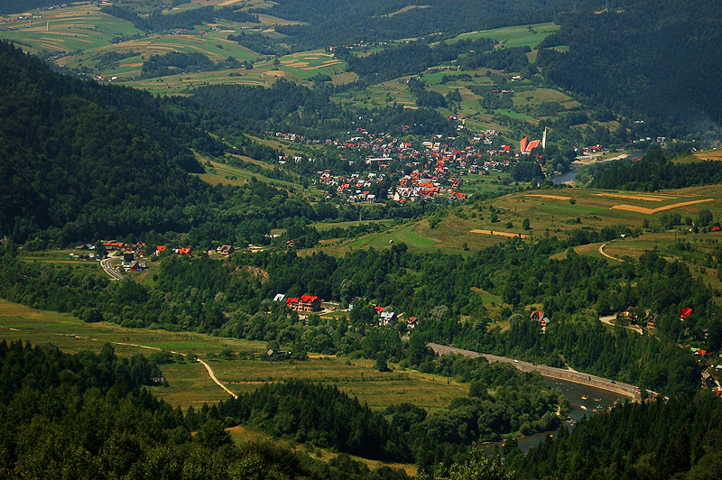 The view of the Kroscienko over Dunajec from the summit Palenica in Pieniny